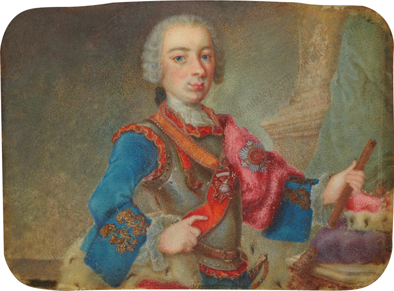 Portrait of Charles Frederick, Grand Duke of Baden (1728-1811)